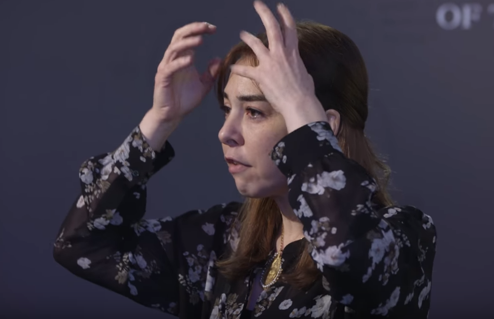 Dina Kitabi